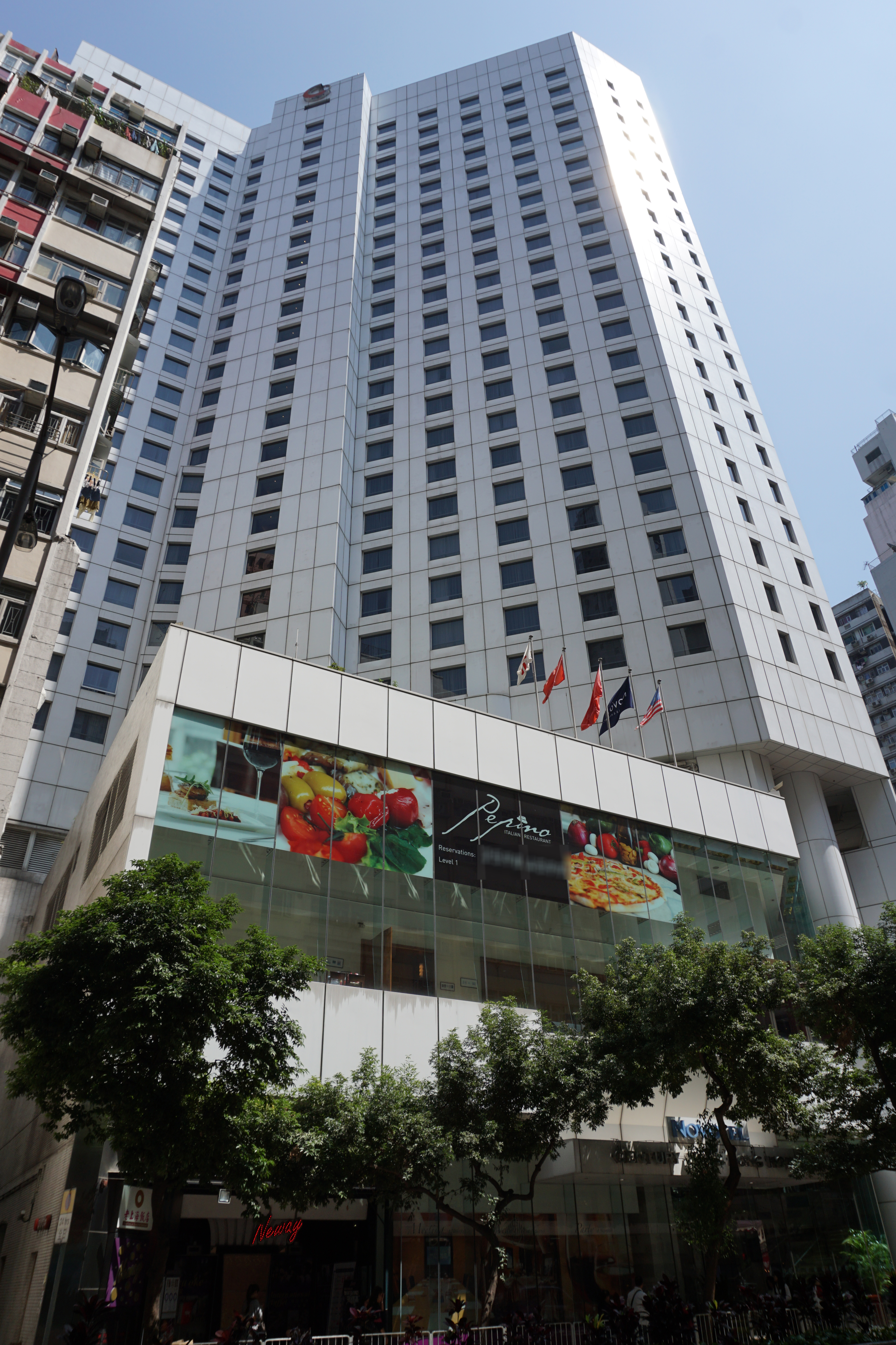 Novotel Century in Wan Chai, Hong Kong.